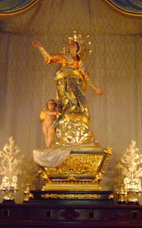 The statue of the Assumption venerated at the Saint Mary's Catholic Parish Church in Għaxaq, Malta. during the feast in her honour from the 9th to the 15th of August. It is carved in wood and is considered as masterpiece of the late Maltese artist Mariano Gerada in the year 1808 Malti: L-istatwa tal-Assunta meqjuma fil-knisja ta' ħal Għaxaq, Malta. armata b'tant ghozza fil-granet tal-festa bejn id-9 u l-15 t'Awwissu.Mahdumha fl-injam fl-1808 minn Marjanu Gerada.